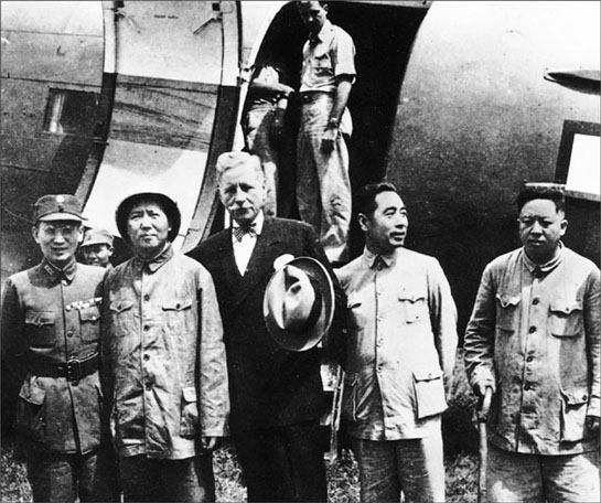 before Chongqing negotiations, in Yan'an